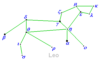 Leo constellation map visualization